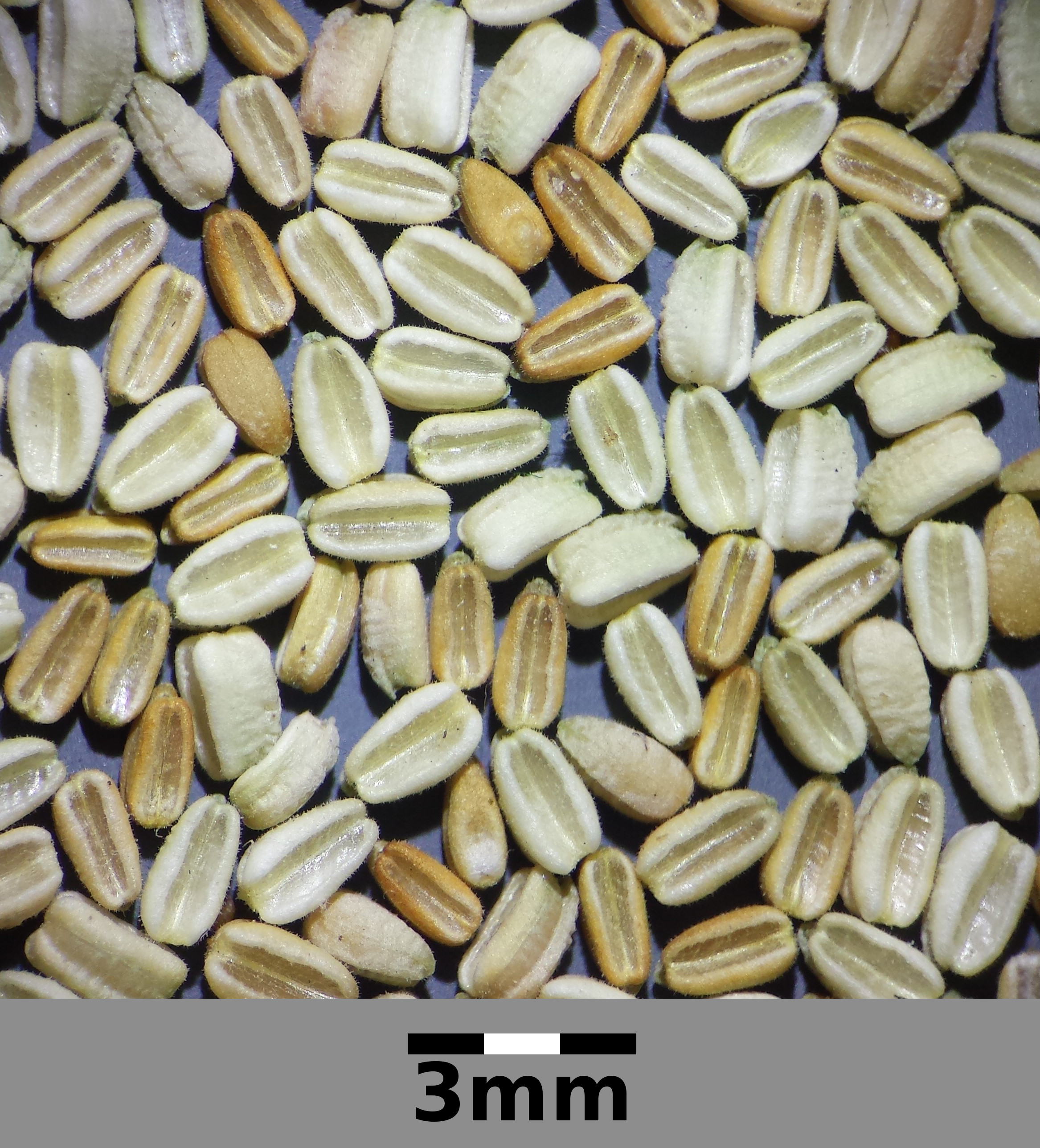 Fruits (dry) Taxon: Valerianella carinata (sensu Fischer et al. EfÖLS 2008 ISBN 978-3-85474-187-9) Location: northwestern railway near Jedlersdorf, Vienna-Floridsdorf - ca. 170 m a.s.l. Habitat: embankment of a railway